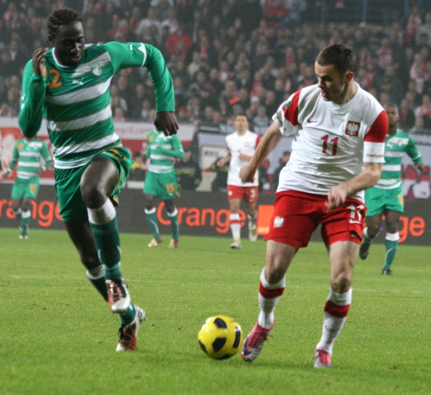 Polish football player Paweł Brożek and ivorian Souleymane Bamba